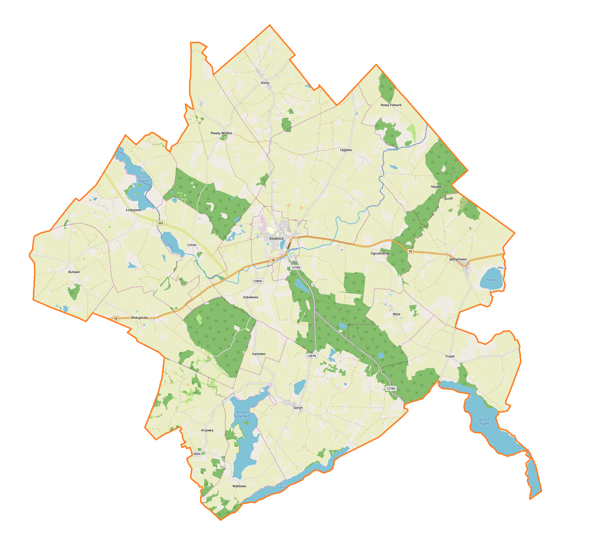 Location map